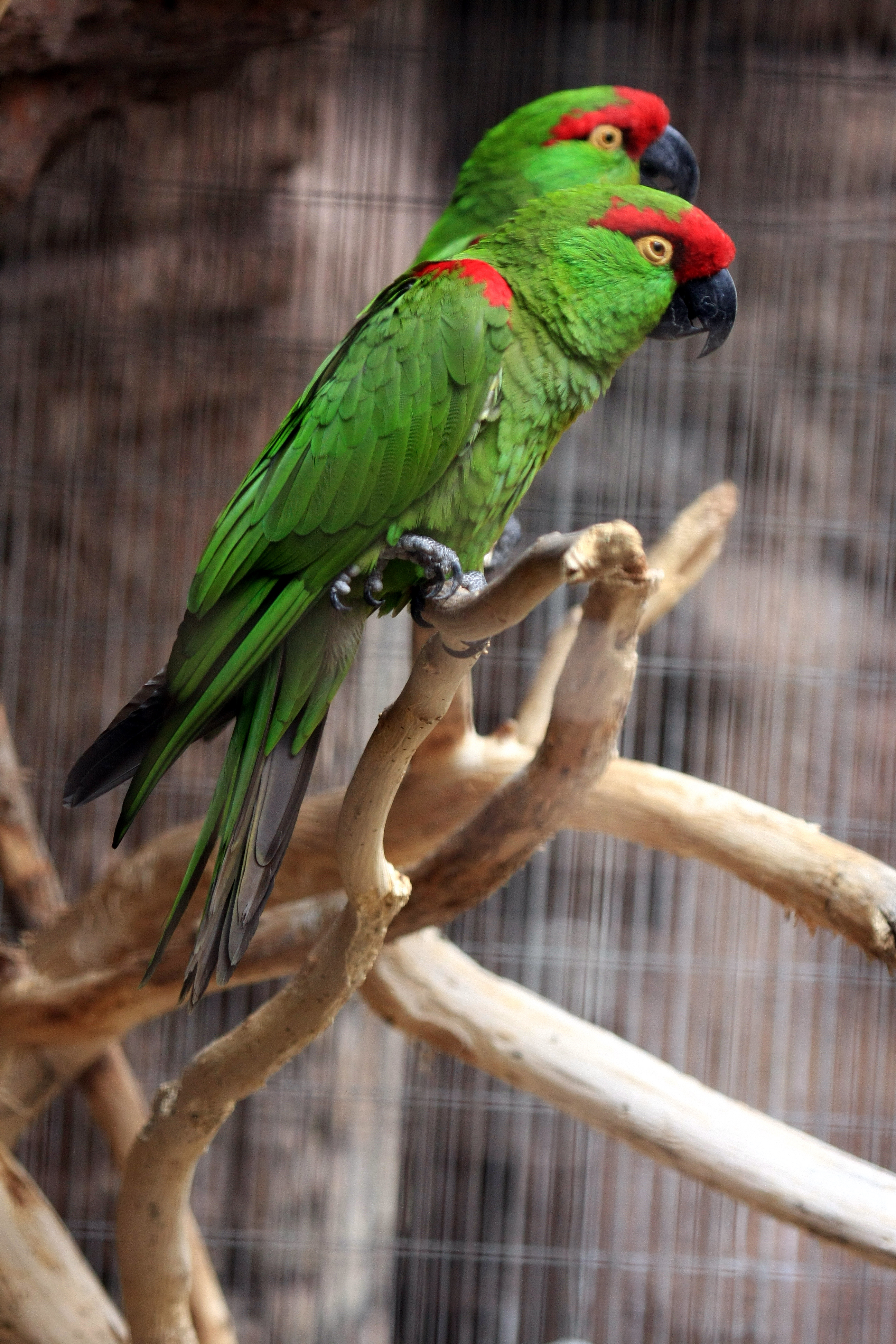 Two Thick-billed Parrots at Arizona-Sonora Desert Museum, Tucson, Arizona, USA.